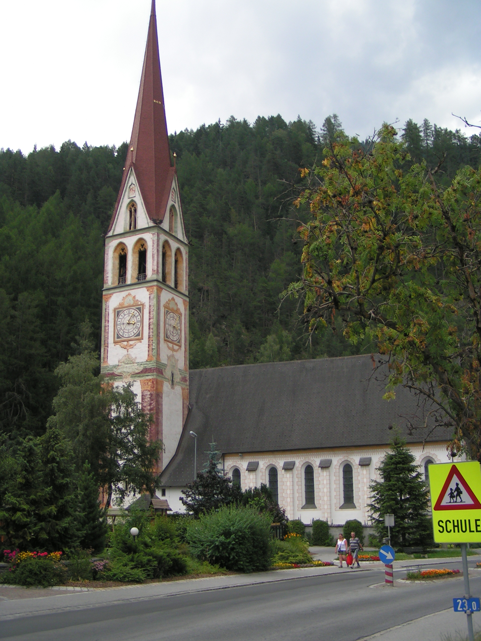 Längenfeld, St Catherine's Parish Church as seen from north (Ötztal-Bundesstraße).